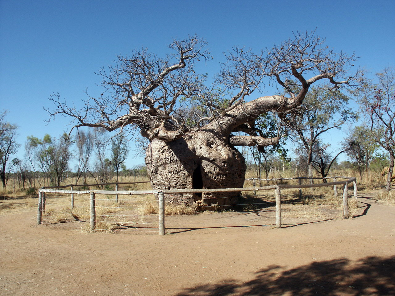 Australian Baobab tree Adansonia gibbosa at Derby, Western Australia